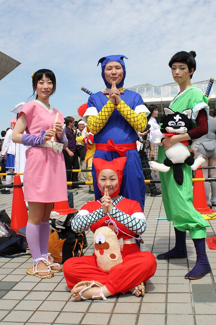 Taken on August 16, 2009 Canon EOS Kiss X2